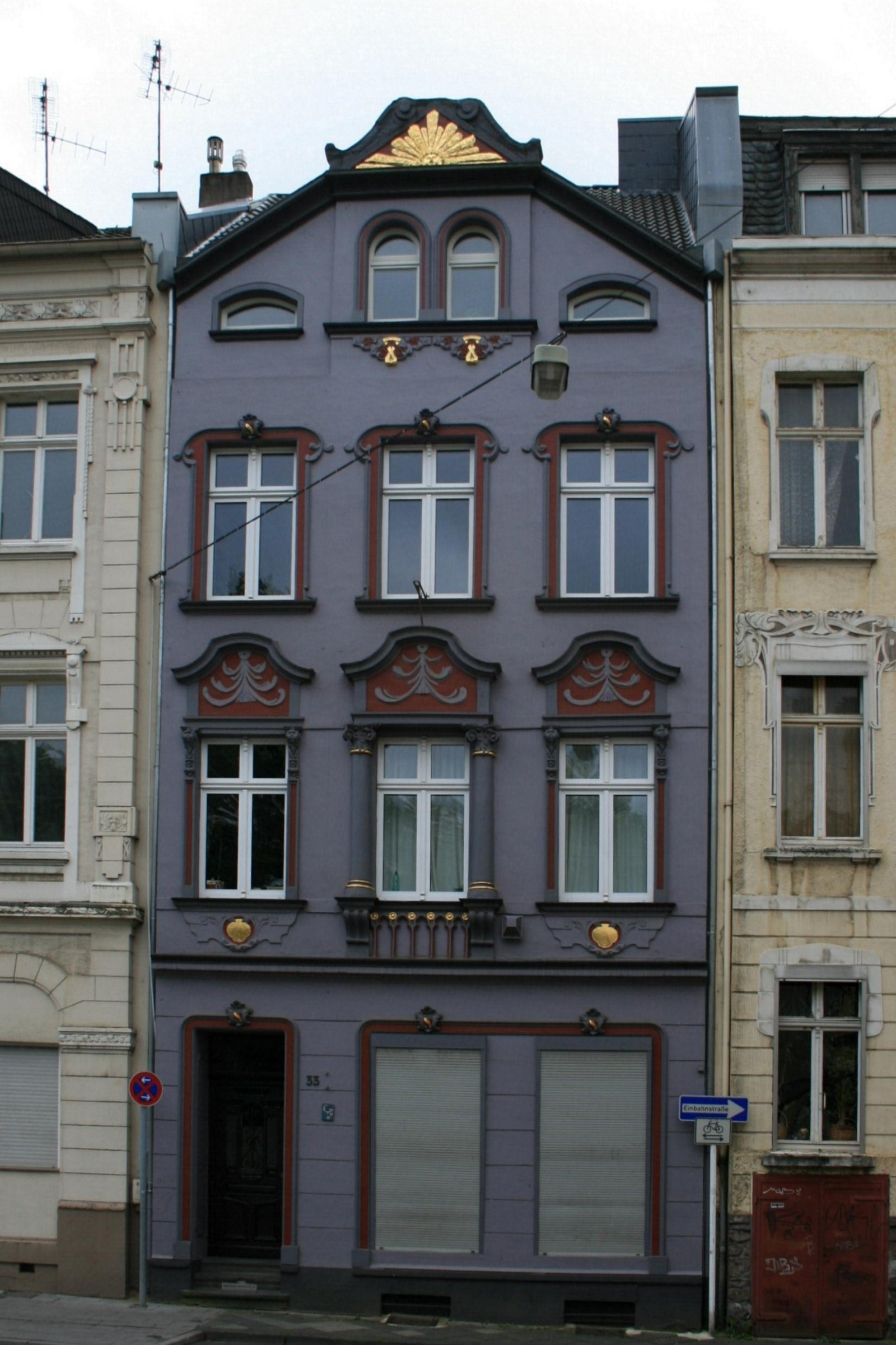 Cultural heritage monument No. G 006 in Mönchengladbach